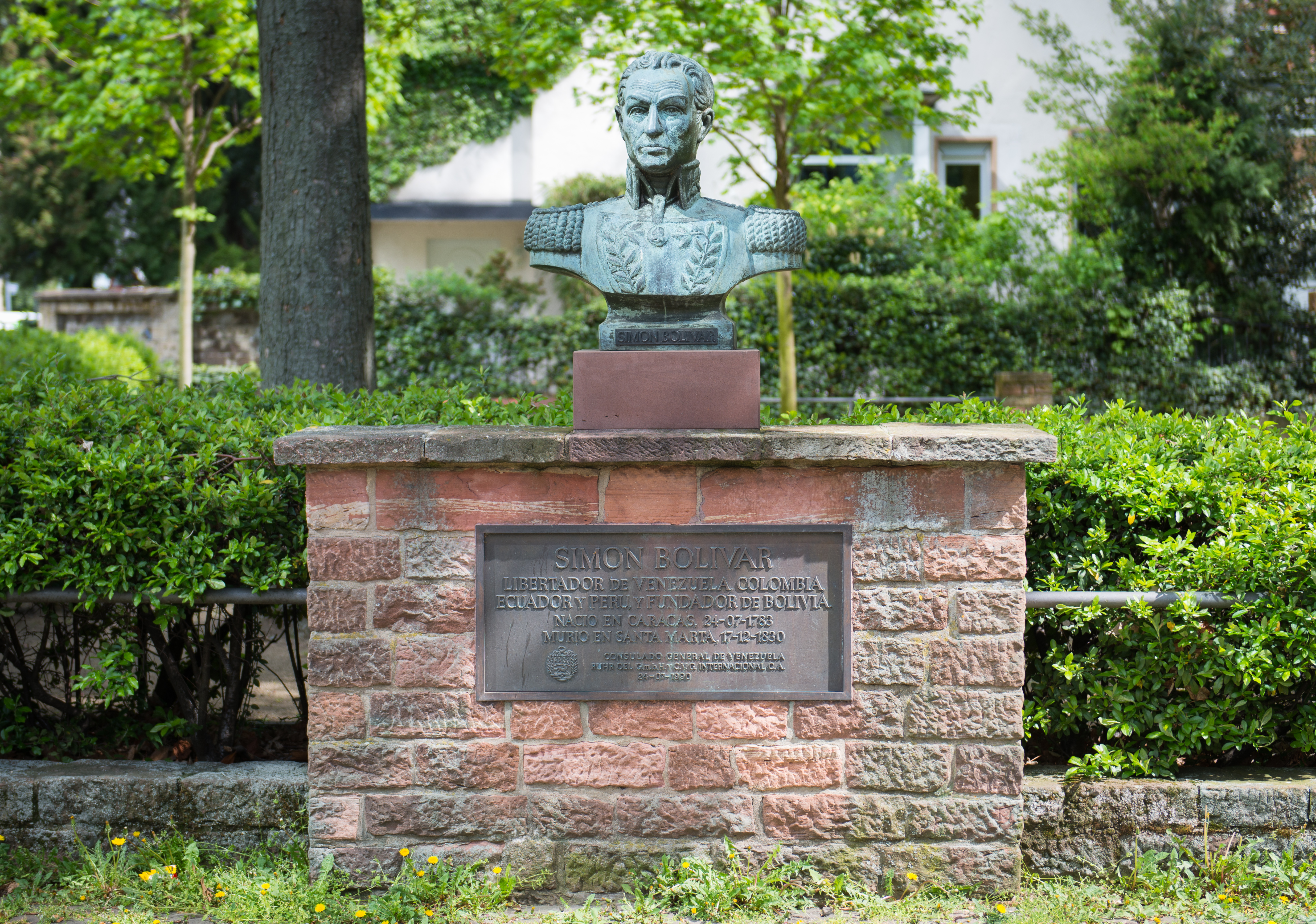 Frankfurt am Main, bust of Simón Bolívar with plaque at the Simon-Bolivar-Anlage in Westend.